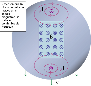 As the circular metal plate moves down through a small region of constant magnetic field directed into the plate, eddy currents are induced in the plate. The direction of these currents is given by Lenz's law.